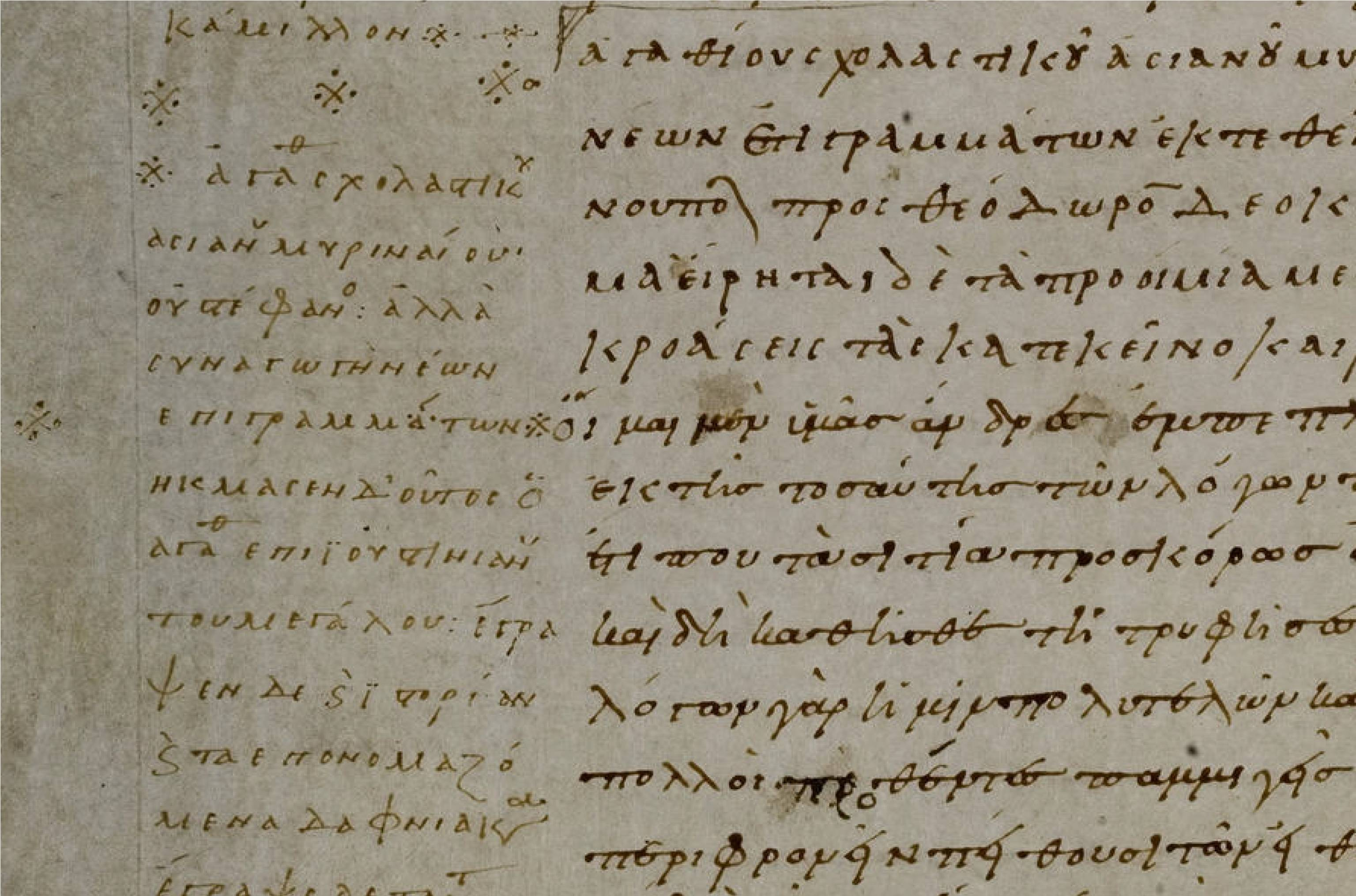 Anthologia Palatina, Cod. Pal. graec. 23, page 83 The scholium introducing the Cycle of New Epigrams of Agathias and the first lines of its Prooimion